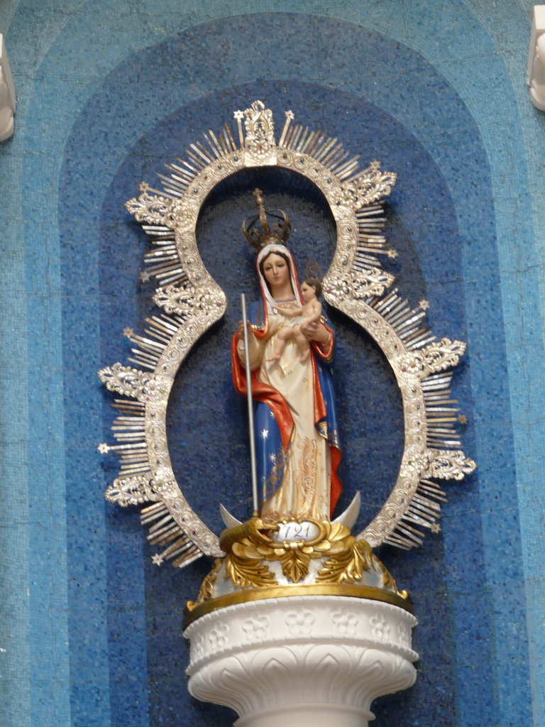 Immaculate Conception Church in Granada, Nicaragua : Statue